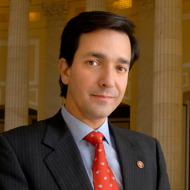 Resident Representative Luis Fortuño official congressional photo (cropped)